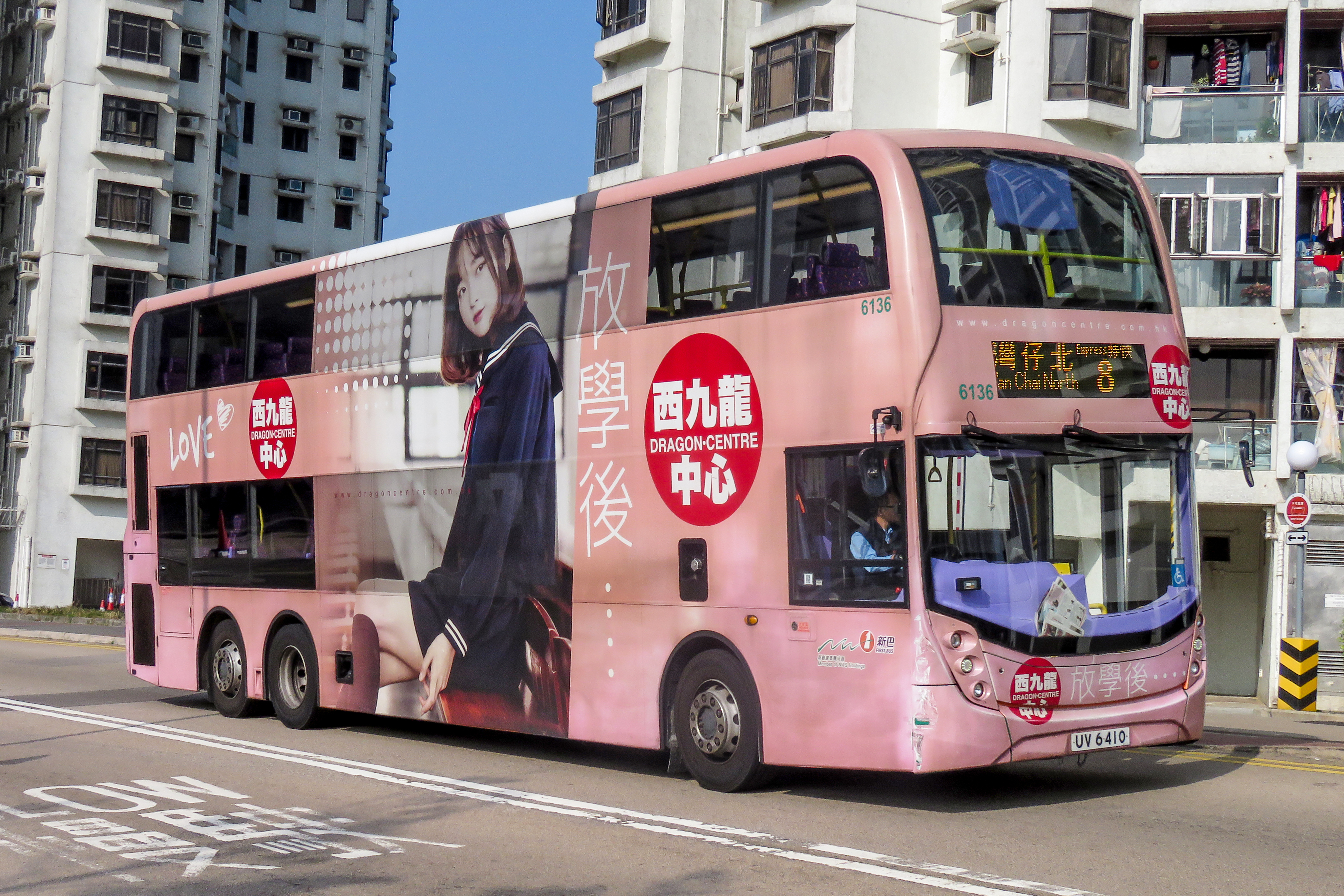 The "After School" advertisement bus is seen passing the curve besides Heng Fa Chuen terminus. And the girl in sailor dress can't be snapped as red light runner either on the starboard side.